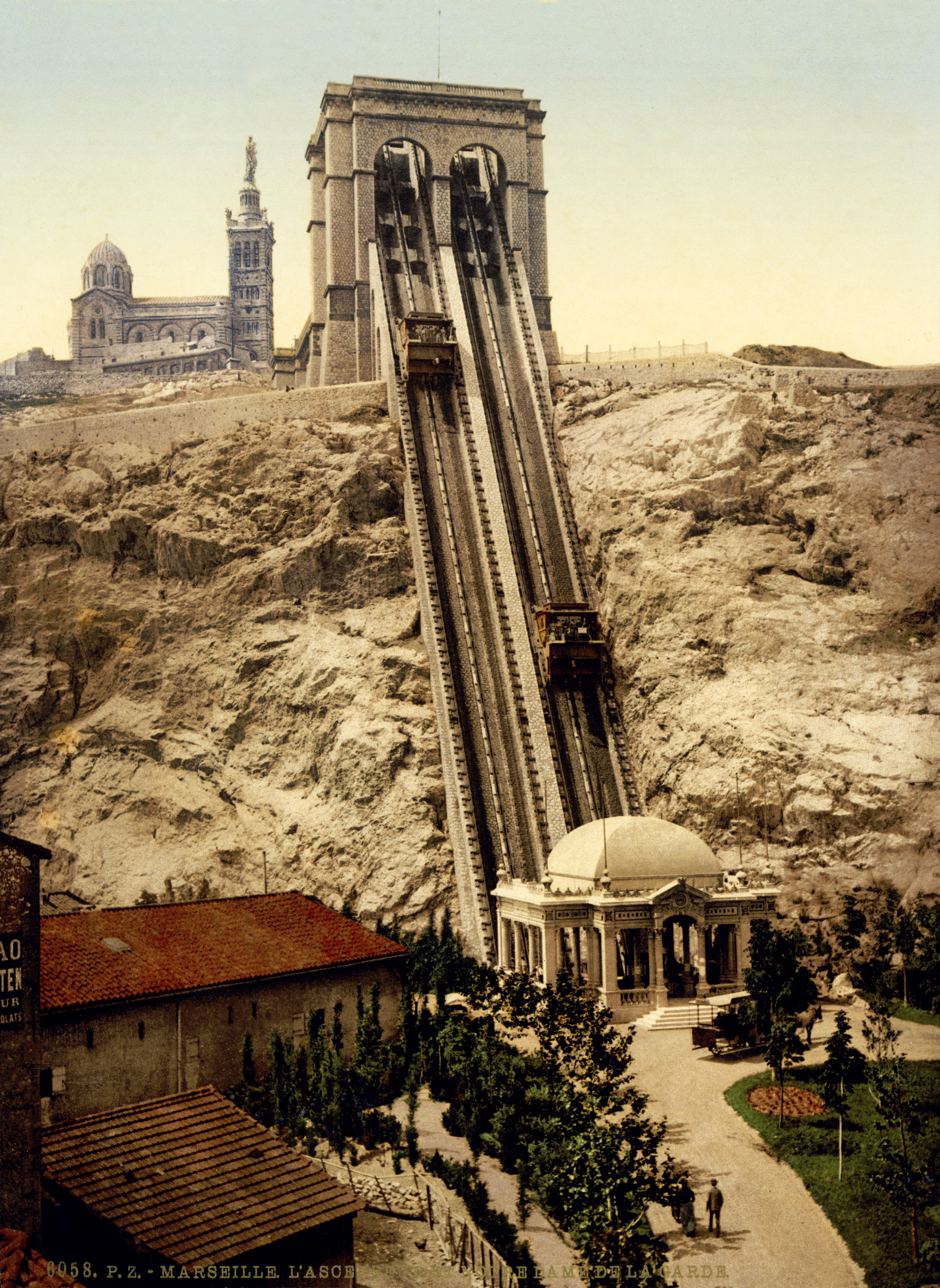 6058 P.Z. Funicular railway ascending to Notre-Dame de la Garde, Marseille.